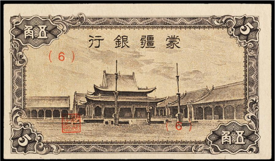 Banknote of Mengjiang, China, 5 jiao.